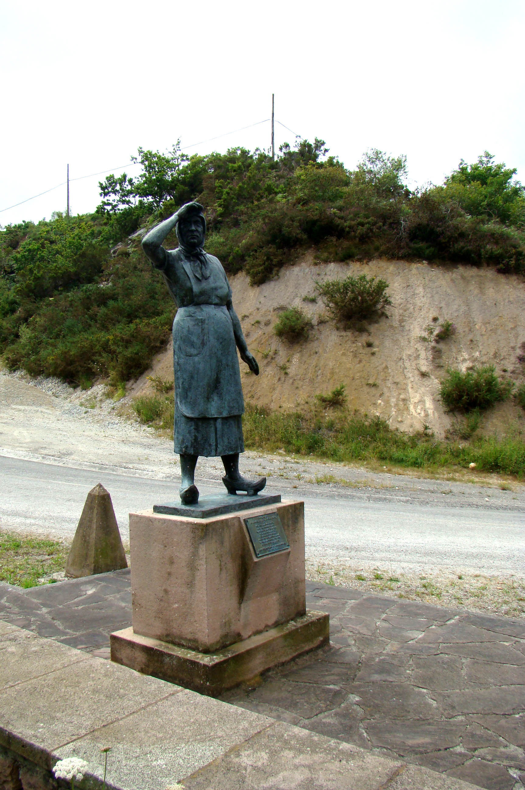 Monument to the mothers of the emigrants in San Sebastián de Garabandal, Cantabria (Spain)